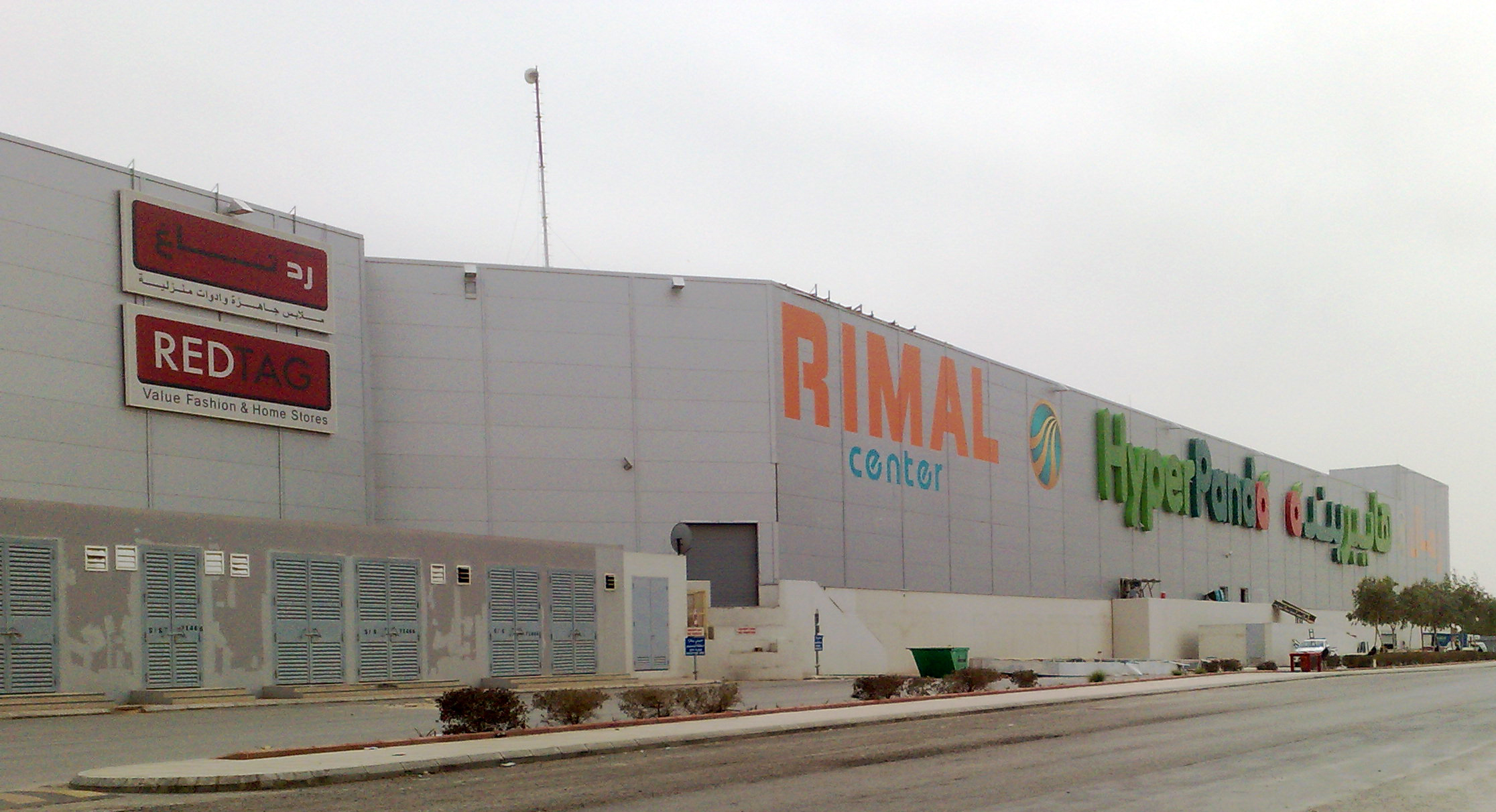 Rimal center, Riyadh, Saudi Arabia